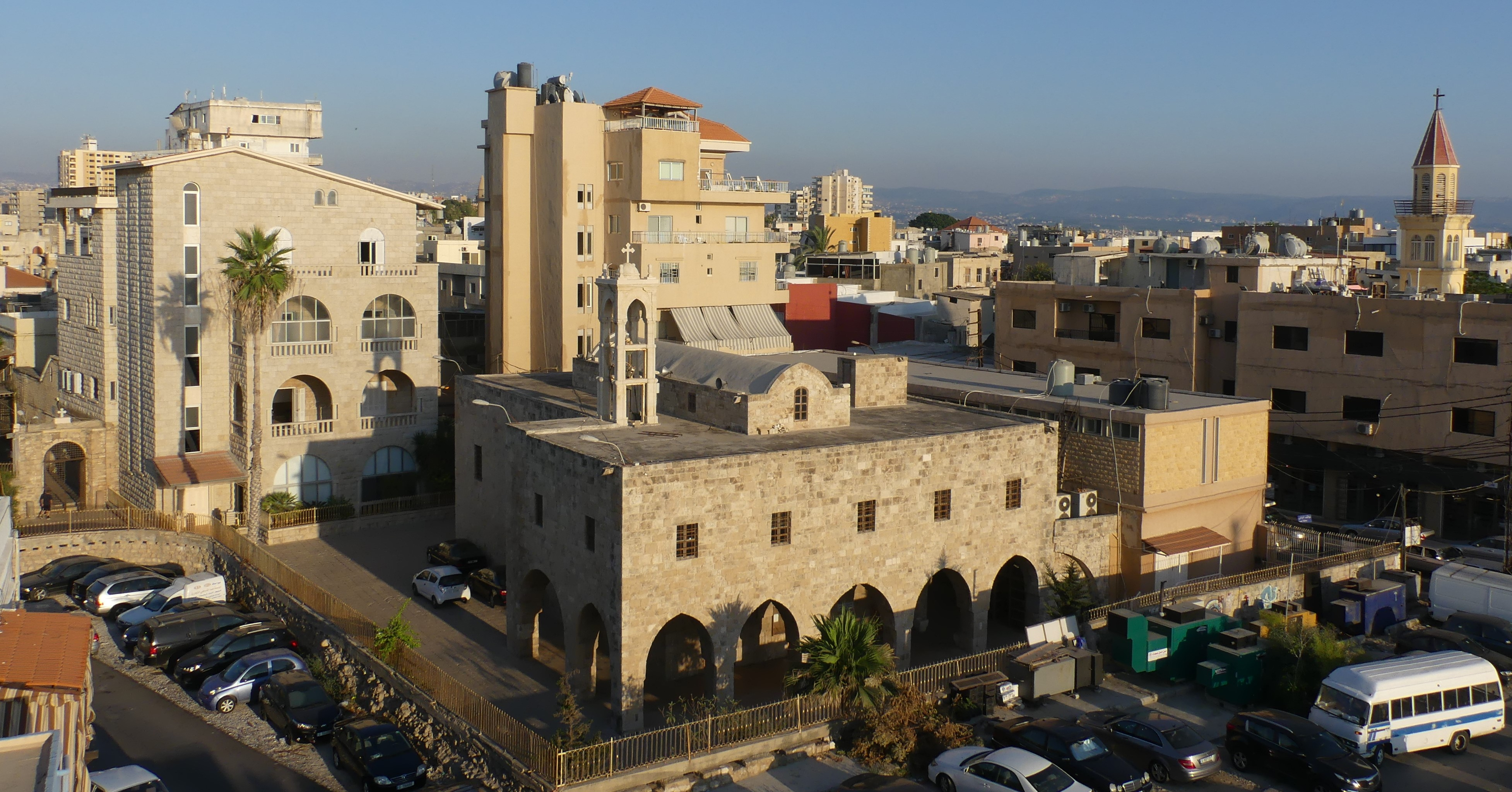 The Melkite Greek Catholic Cathedral of Saint Thomas in Tyre, South Lebanon, seen from the rooftop of the ĒL Boutique Hotel. On the left hand side of the church is the seat of the archeparchy. On the right hand side, the tower of the Catholic-Latin church of the Couvent de Terre Sainte can be seen.